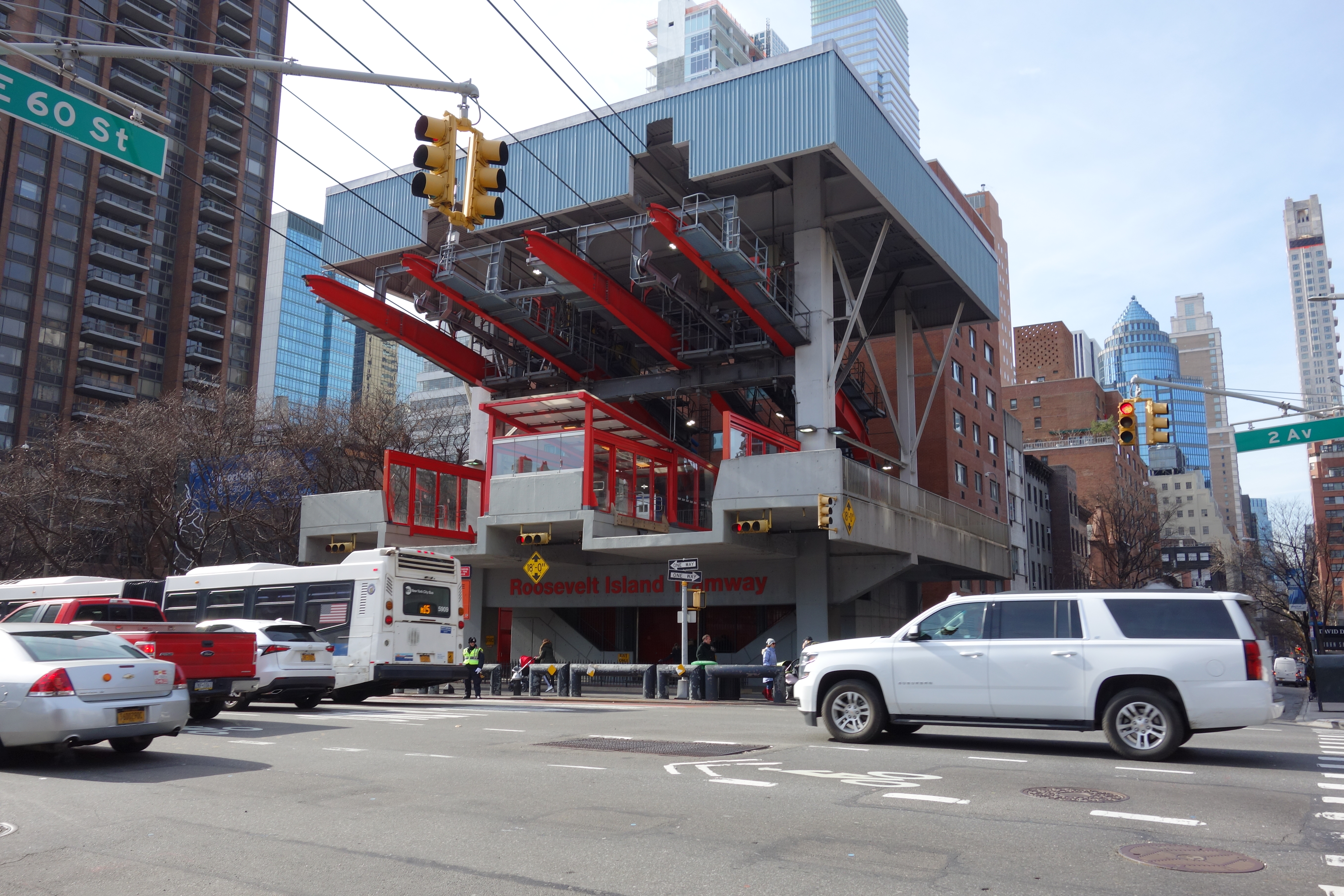 The Manhattan end of the Roosevelt Island Tramway, at Second Avenue and 60th Street at the foot of the Queensboro Bridge in East Midtown, Manhattan.